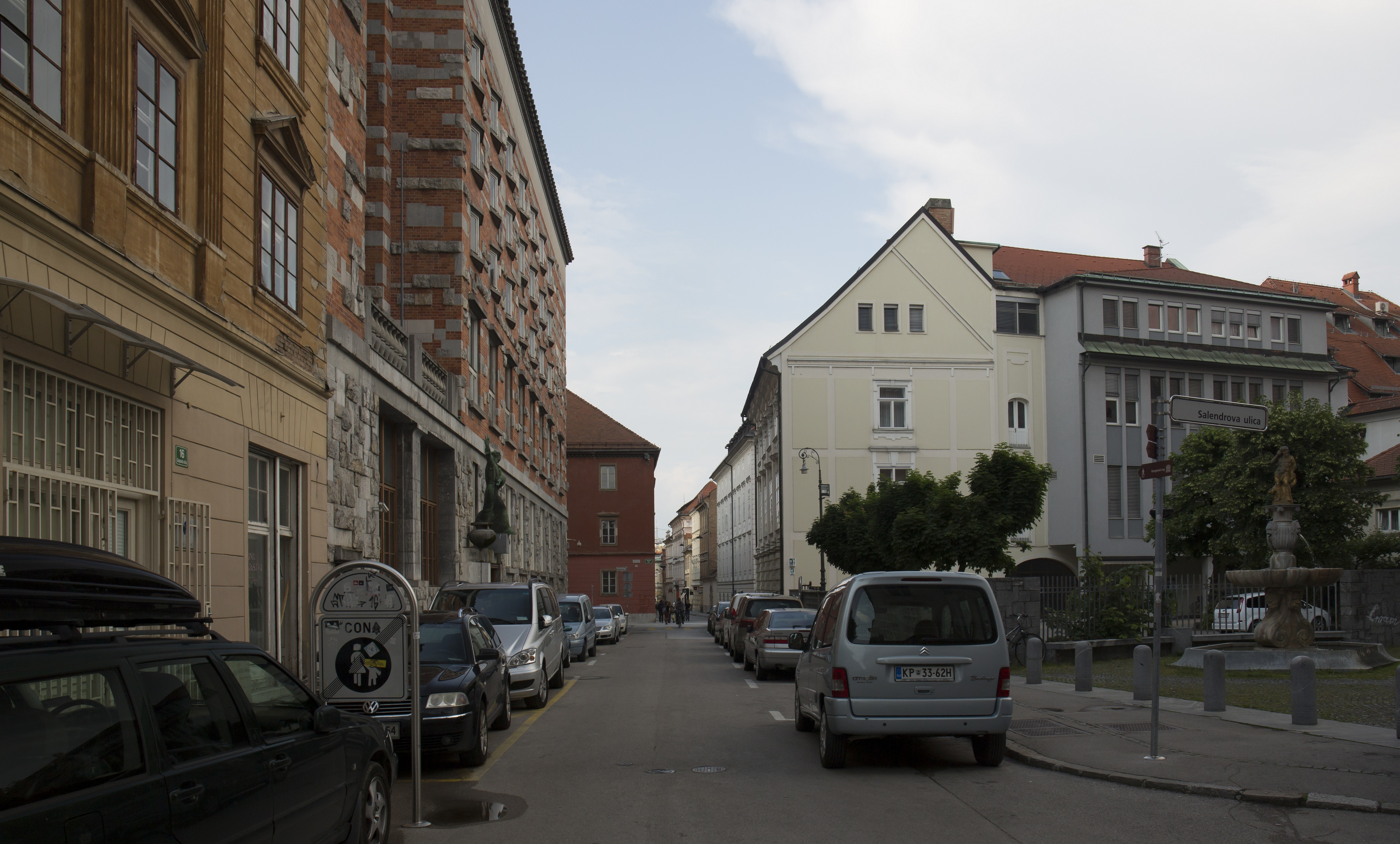 Gosposka Street in Ljubljana, Slovenia. View towards the Congress Square.